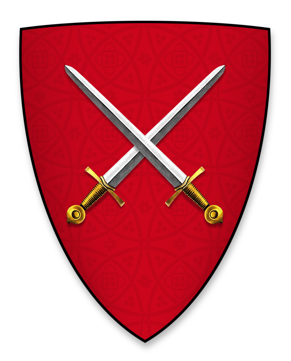 Arms displayed by William of Sainte-Mère-Église, Bishop of London, at the signing of Magna Charta